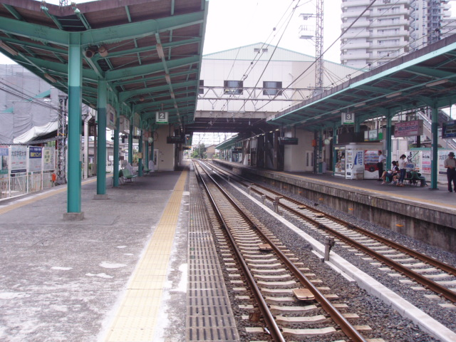 Nankai Electric Railway Kōya Line Kitanoda Station Platform